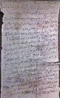 Penalties of assaulting livestock, Ait Mzal region in Morocco.